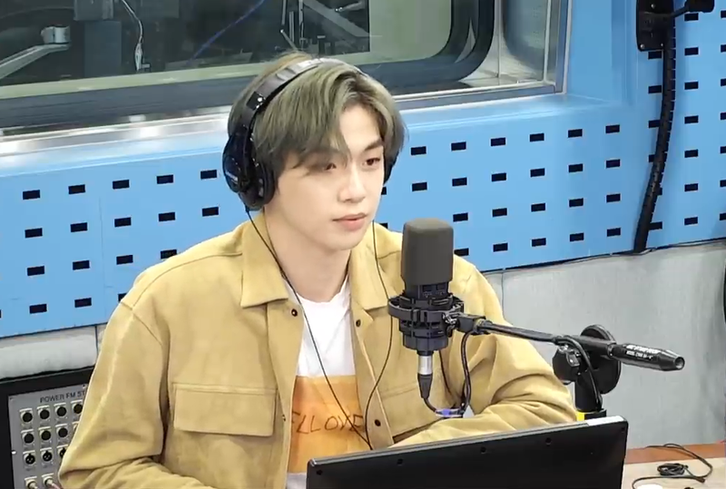 Kang Daniel at SBS Power FM for "2U" promotions on April 7, 2020.